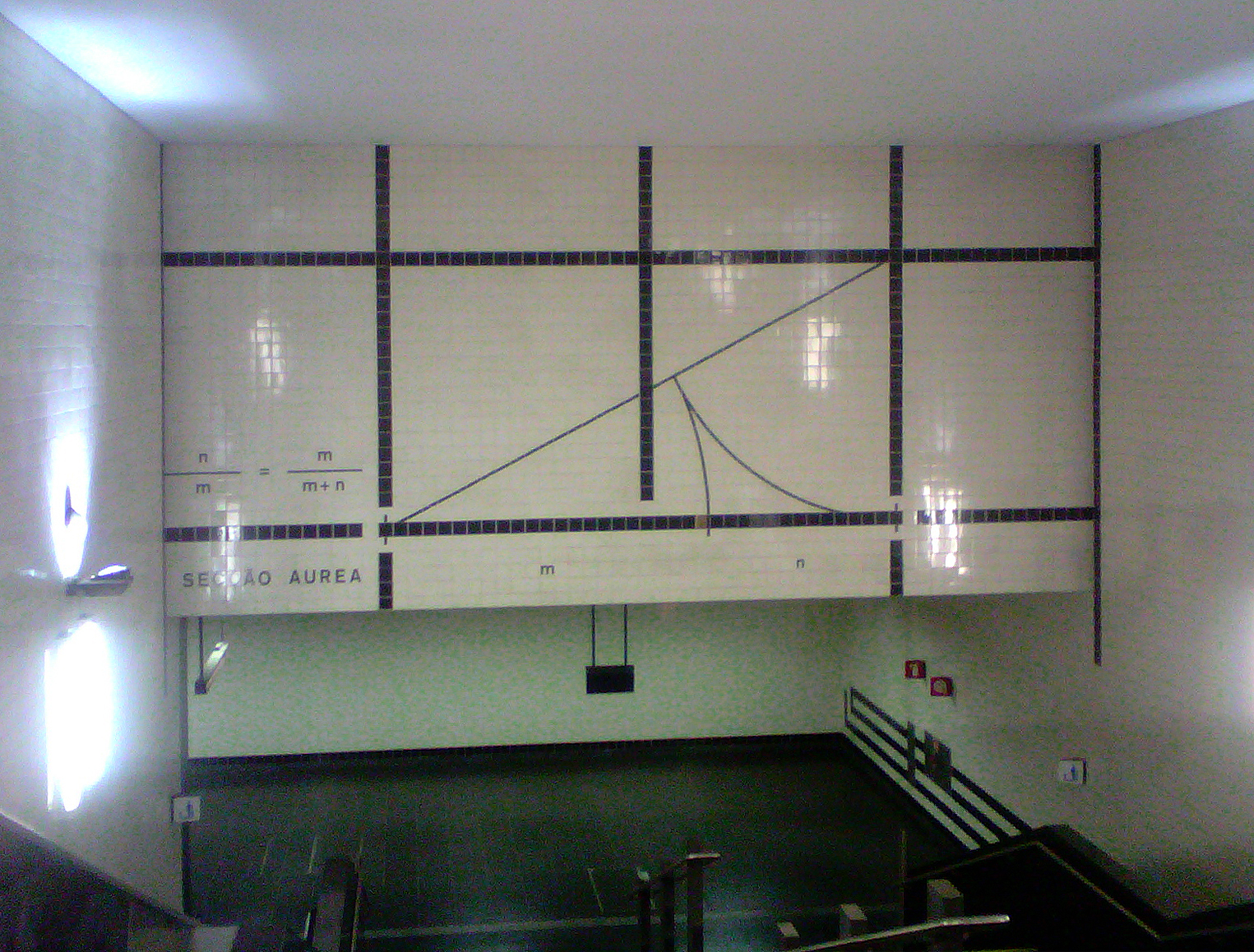 Photo alusive to Golden ratio in the Lisbon subway Saldanha II station (the entrance to the red line)